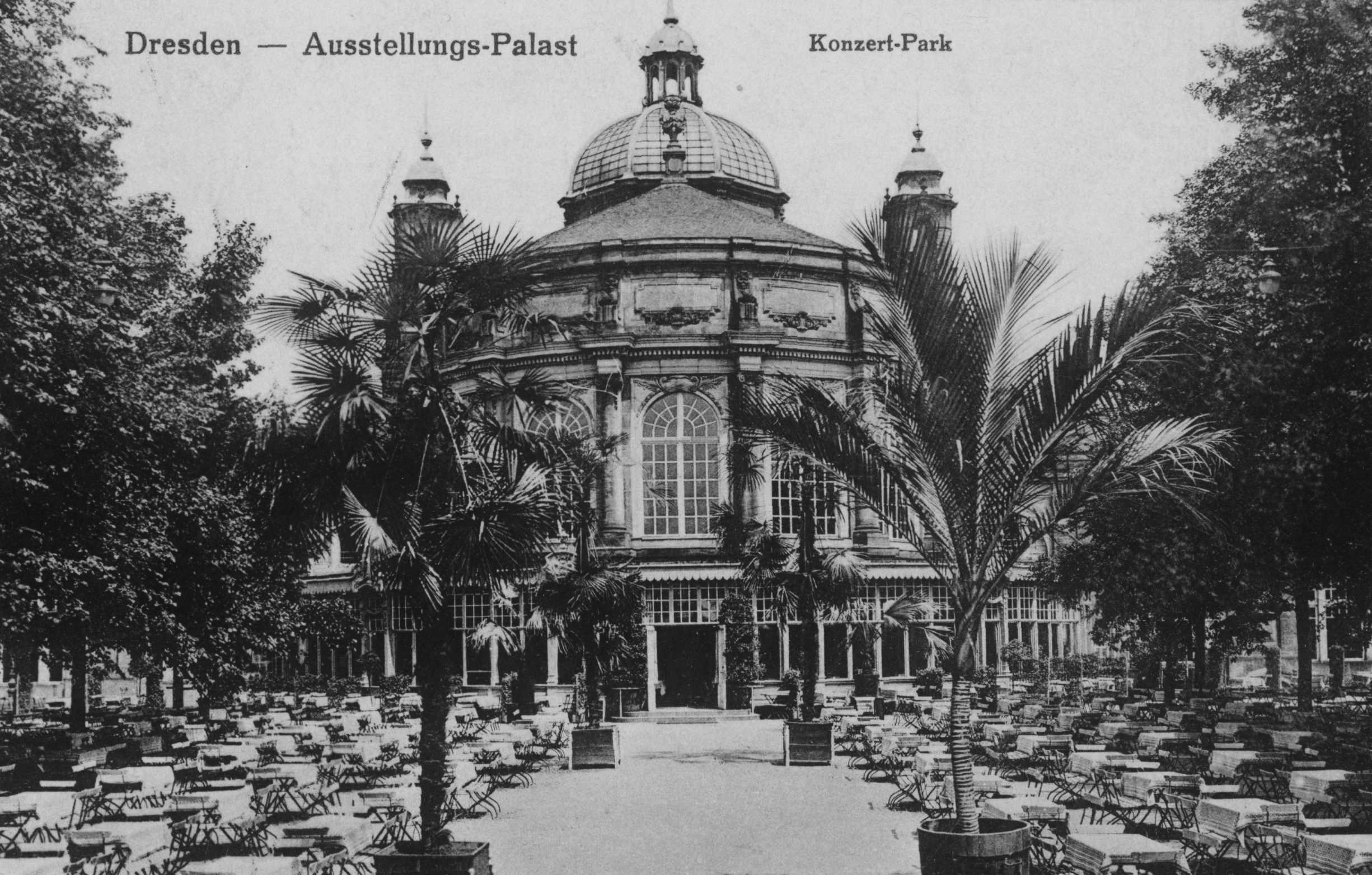 Exhibition Palace of Dresden, restaurant and garden (1923-postmark), Kunstverlag Alfred Hartmann